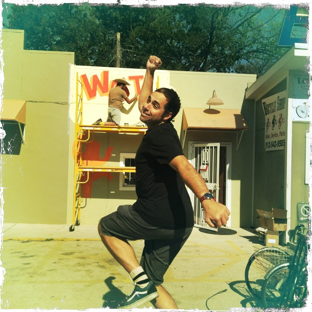 photo of Derrick Brown in front of Austin store